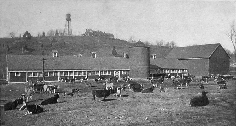 Images from Our Village: Briarcliff Manor, published with no copyright notice. Also published with words overlaid in 1905' Briarcliff Outlook (page 289), and published as is seen in the 1905 Municipal Journal and Engineer (page 132).